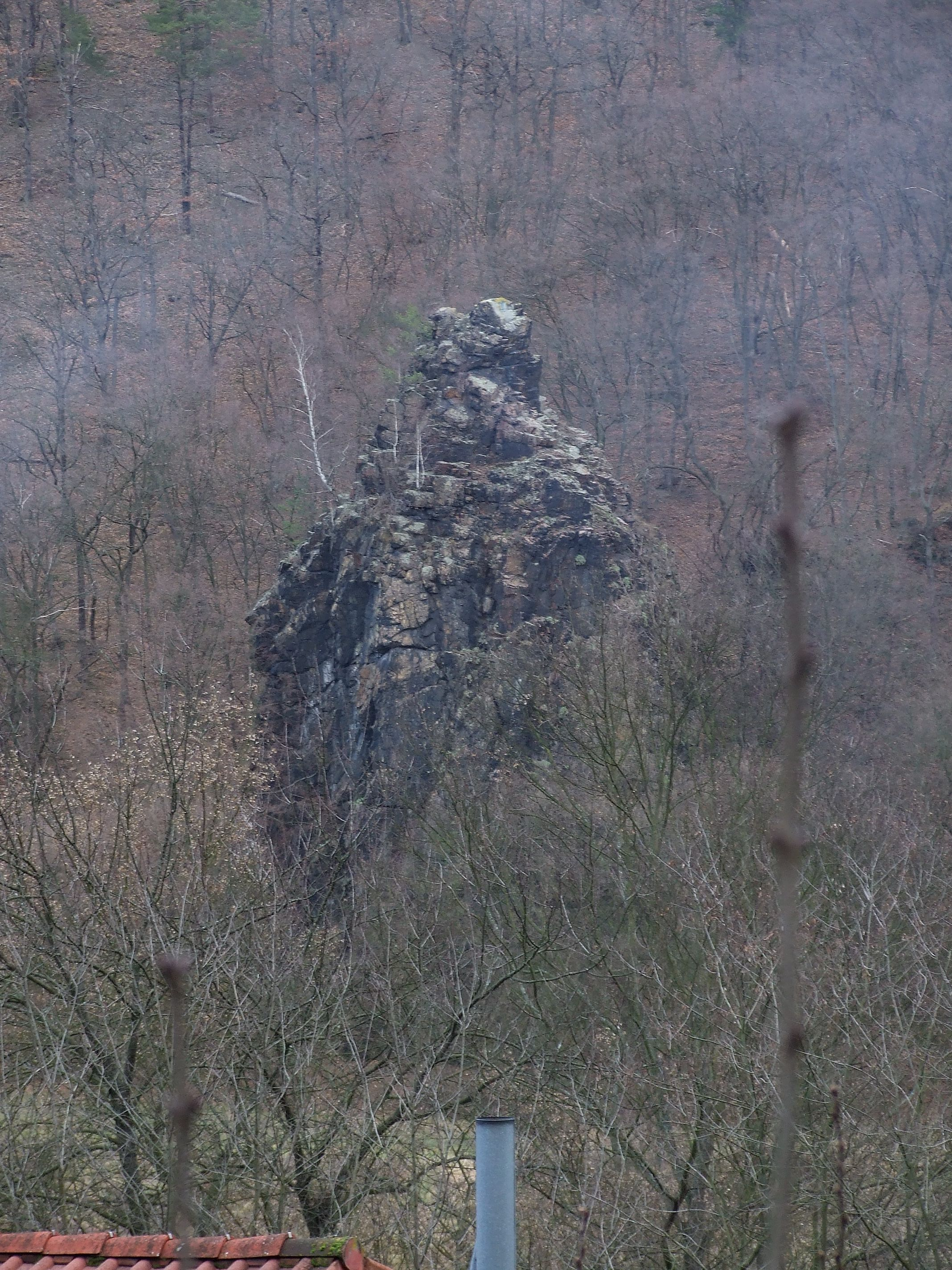 Village of Roztoky, Rakovník District, a rock in the surrounding nature